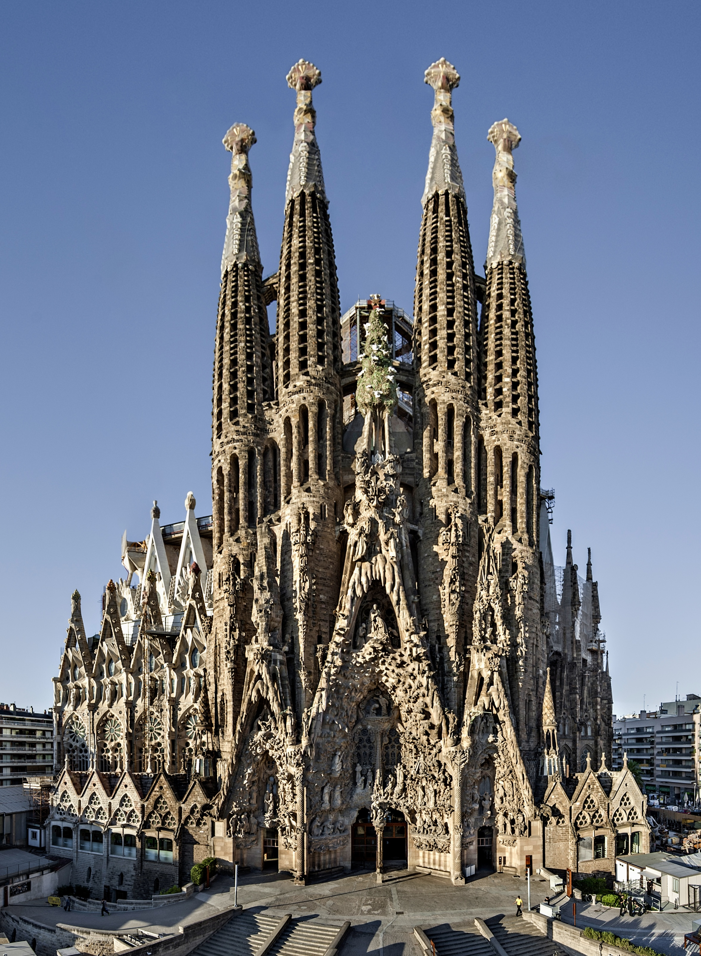 Nativity facade (Marina St.) of the Basilica and Expiatory Church of the Holy Family in Barcelona Spain. Cropped version